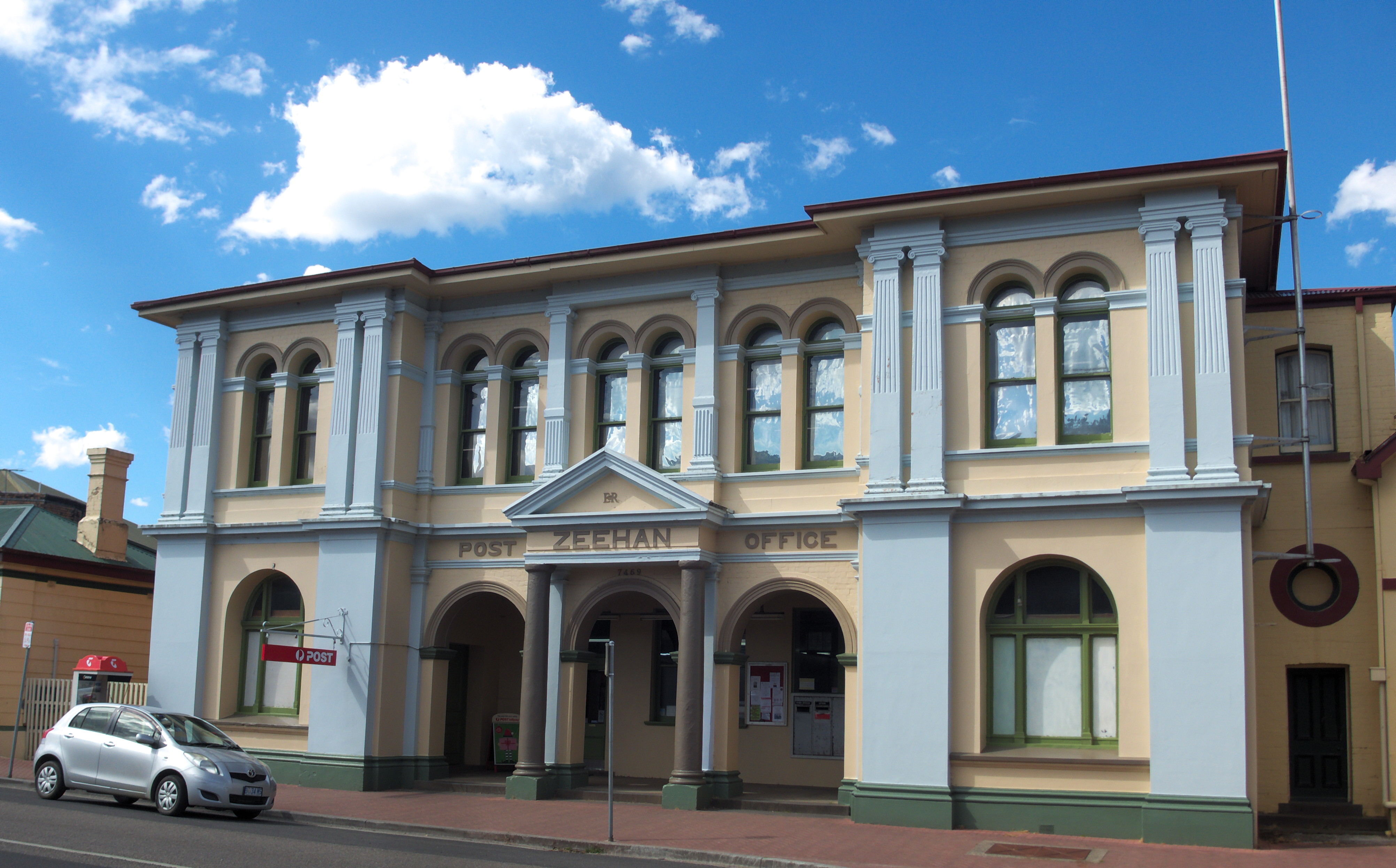 Zeehan Post Office, which opened in 1901.[1]